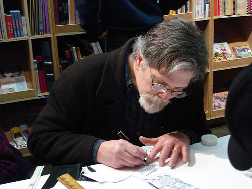 Jim Woodring working on a drawing at the Fantagraphics Bookstore and Gallery in Georgetown, Seattle, Washington, USA during a 2007 event called "Friends of the Nib". His informal drawing group, The Friends of The Nib(who meet each Wednesday night at The Cafe Racer in the University district) put on a night of cooperative cartooning, often working on one story with multiple artists. This event had been held twice at the bookstore with good sized crowds watching, with guest artists such as Kim Deitch and Pat Moriarity adding to the art as well.